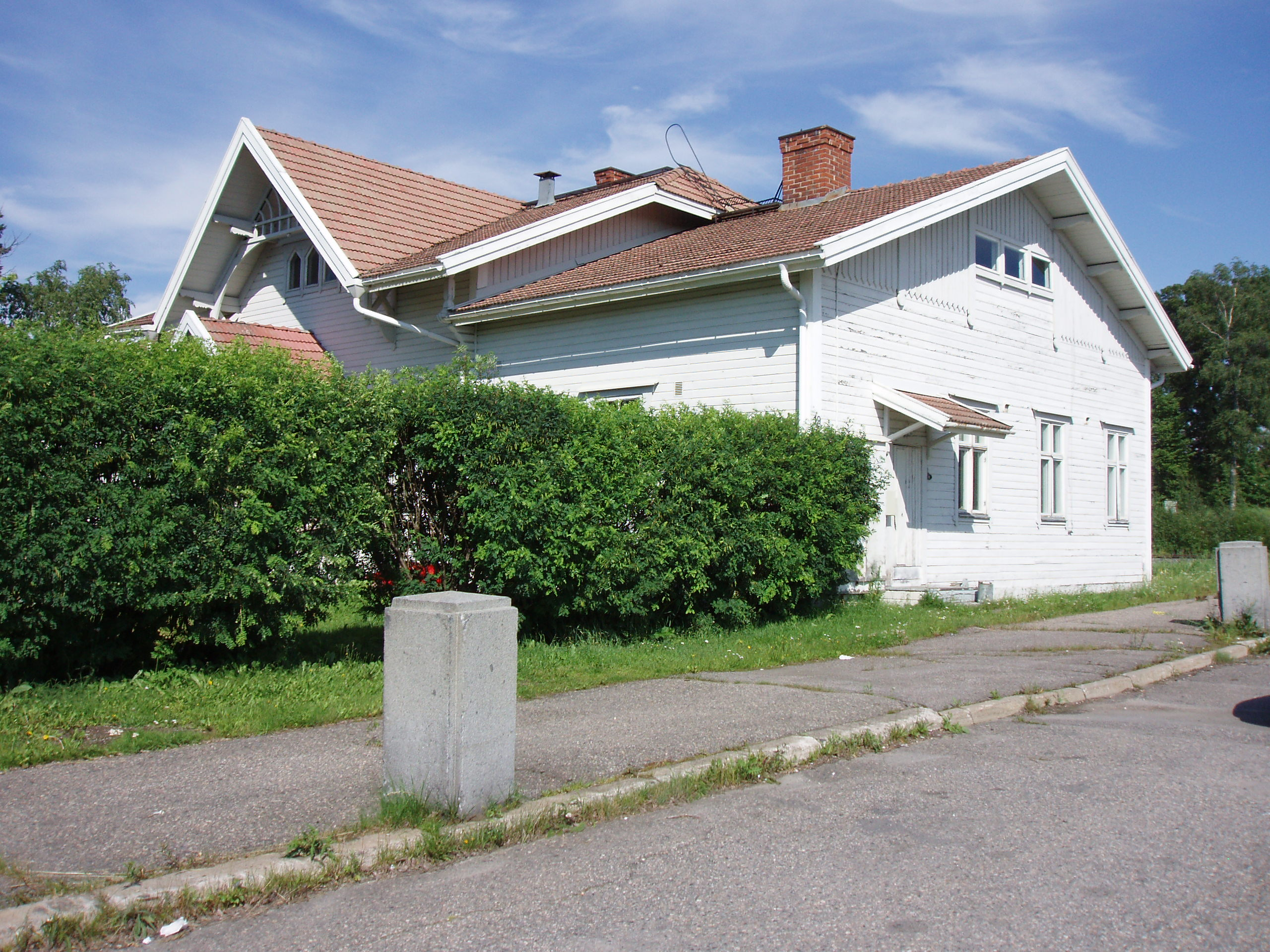 The oldest railway station building of Tornio, Finland